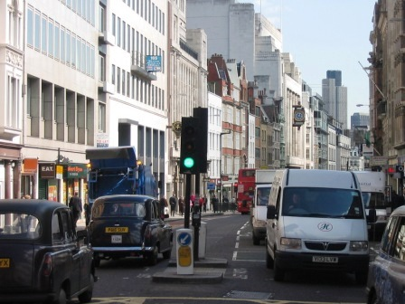 Fleet Street, London, UK, looking East